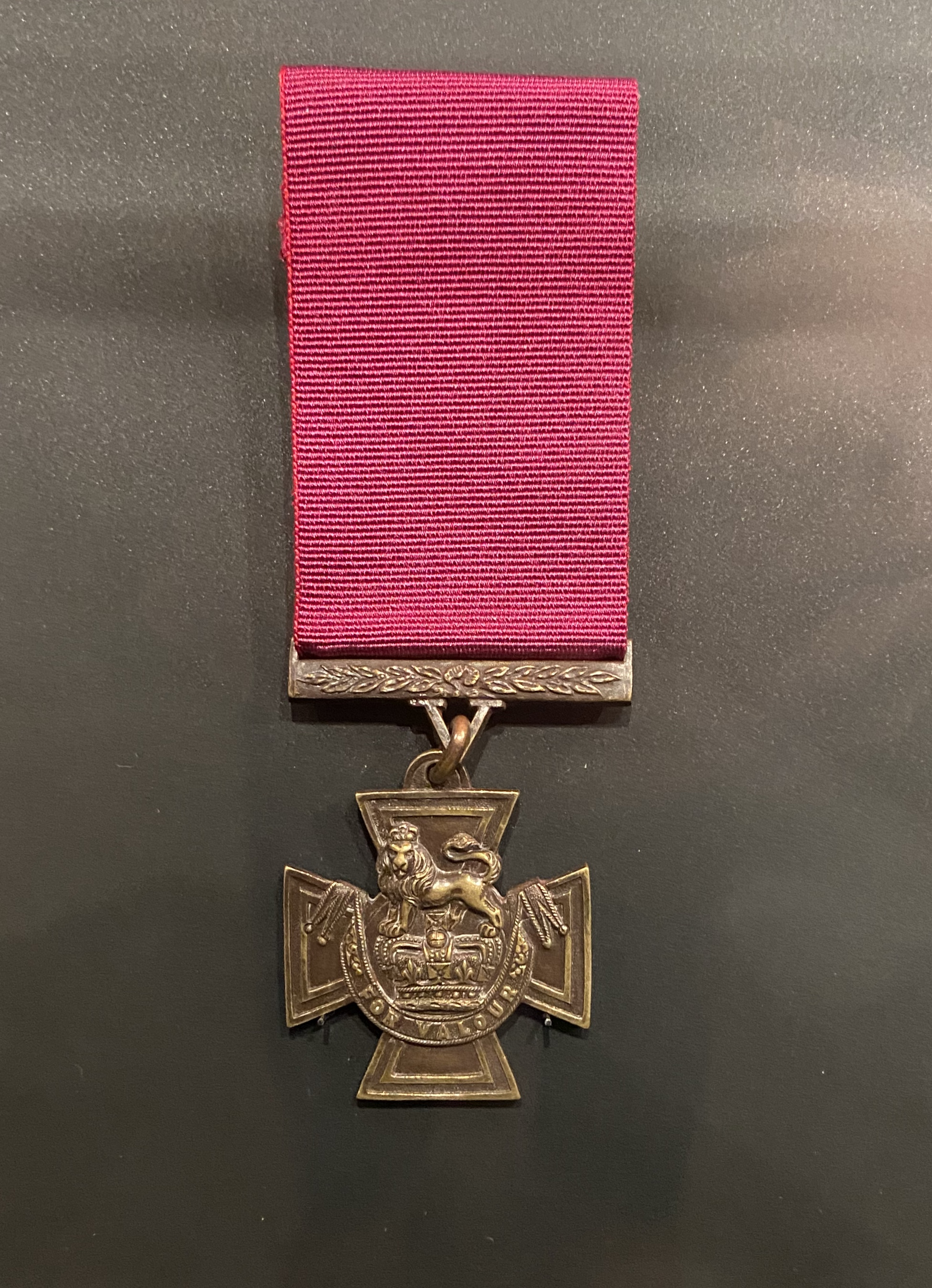 Alfred Knight‘s Victoria Cross at the British Postal Museum.